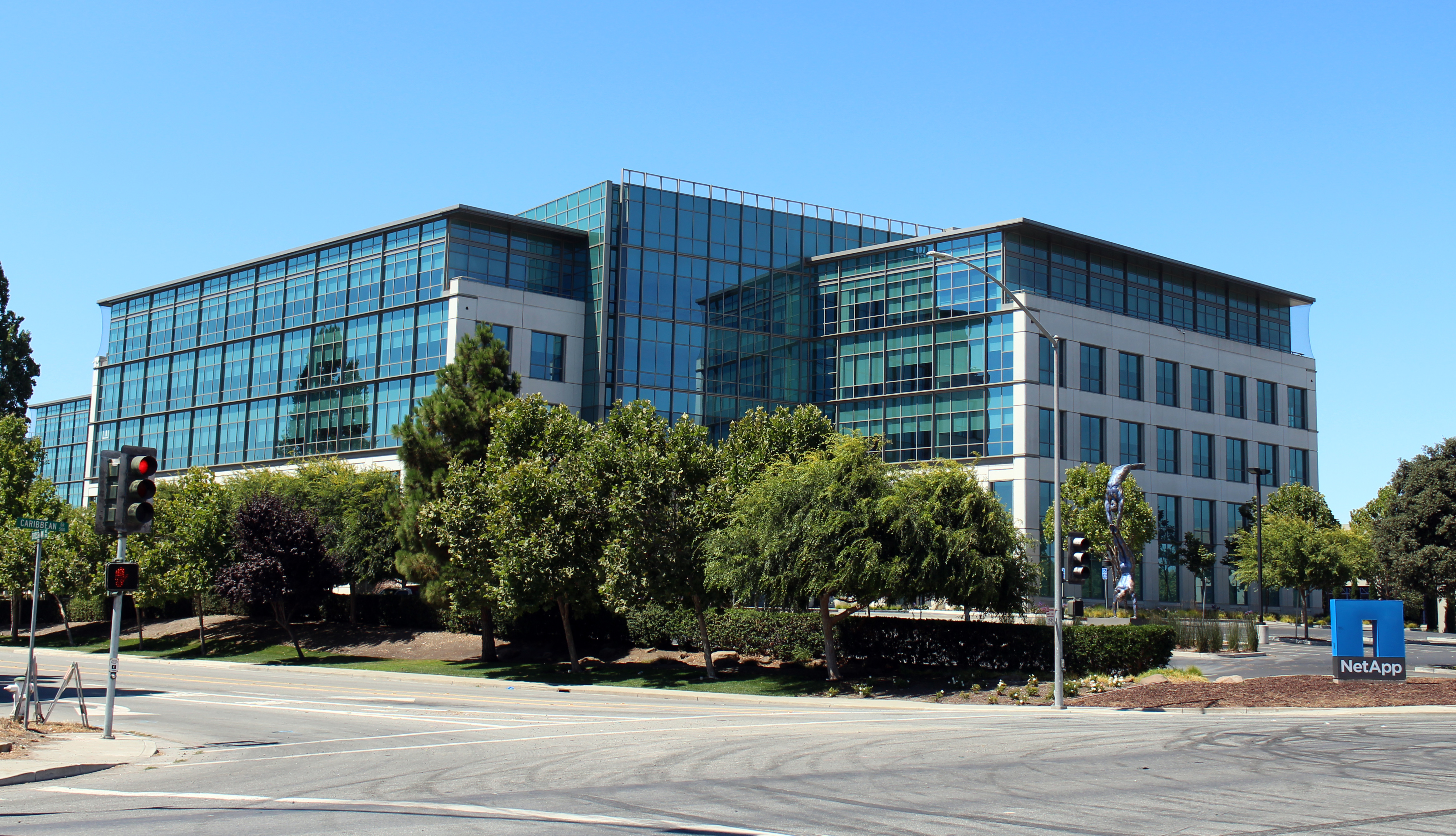 Building 1 at NetApp headquarters in Sunnyvale, California. Photographed on August 2, 2020 by user Coolcaesar.